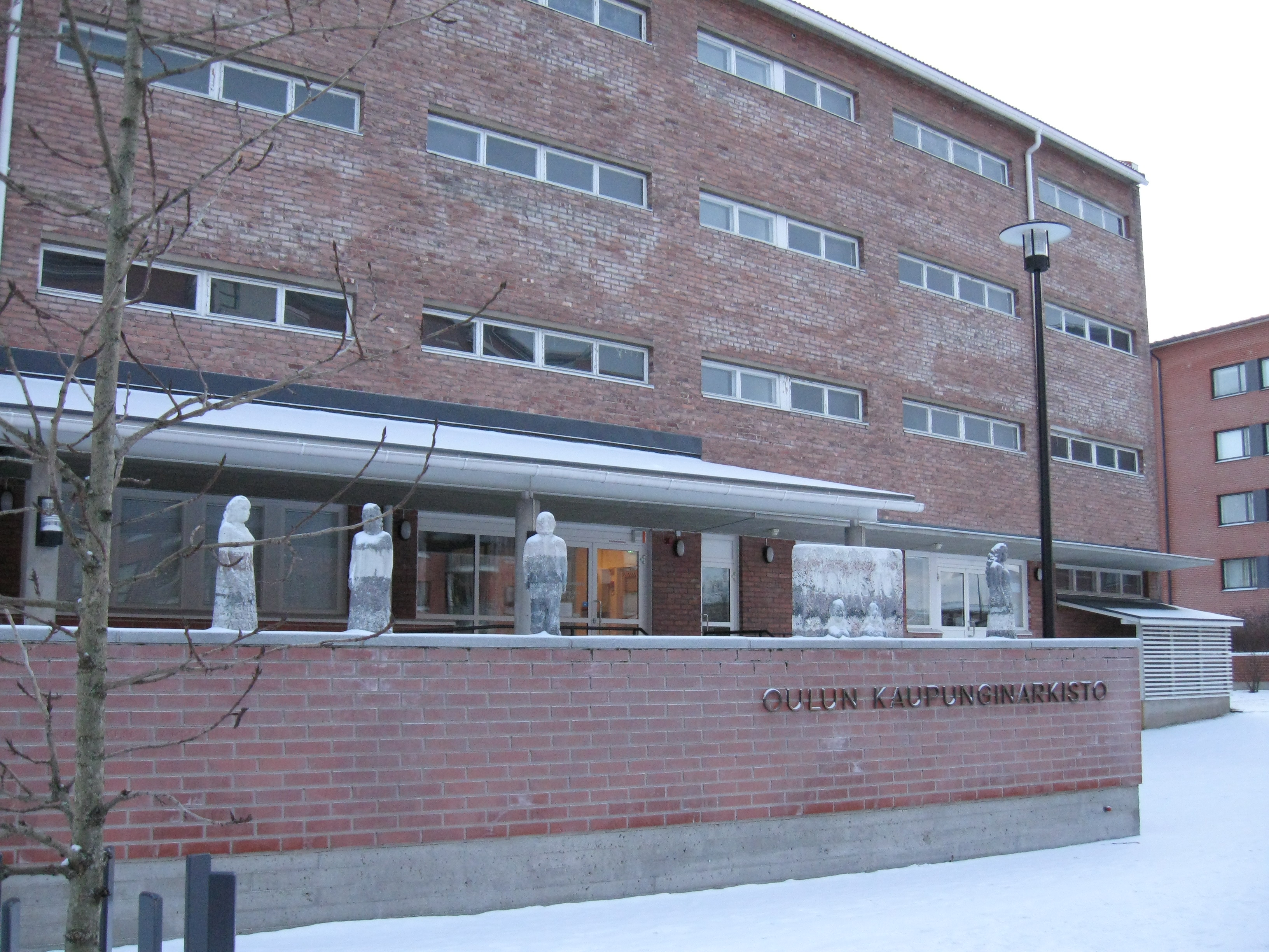 The city archive of Oulu, Finland.